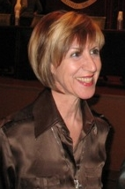 Rosa Díez González, Spanish Basque politician, former Member of European Parliament (Spanish Socialist Workers Party) at a event by asociation Ciutadans de Catalunya